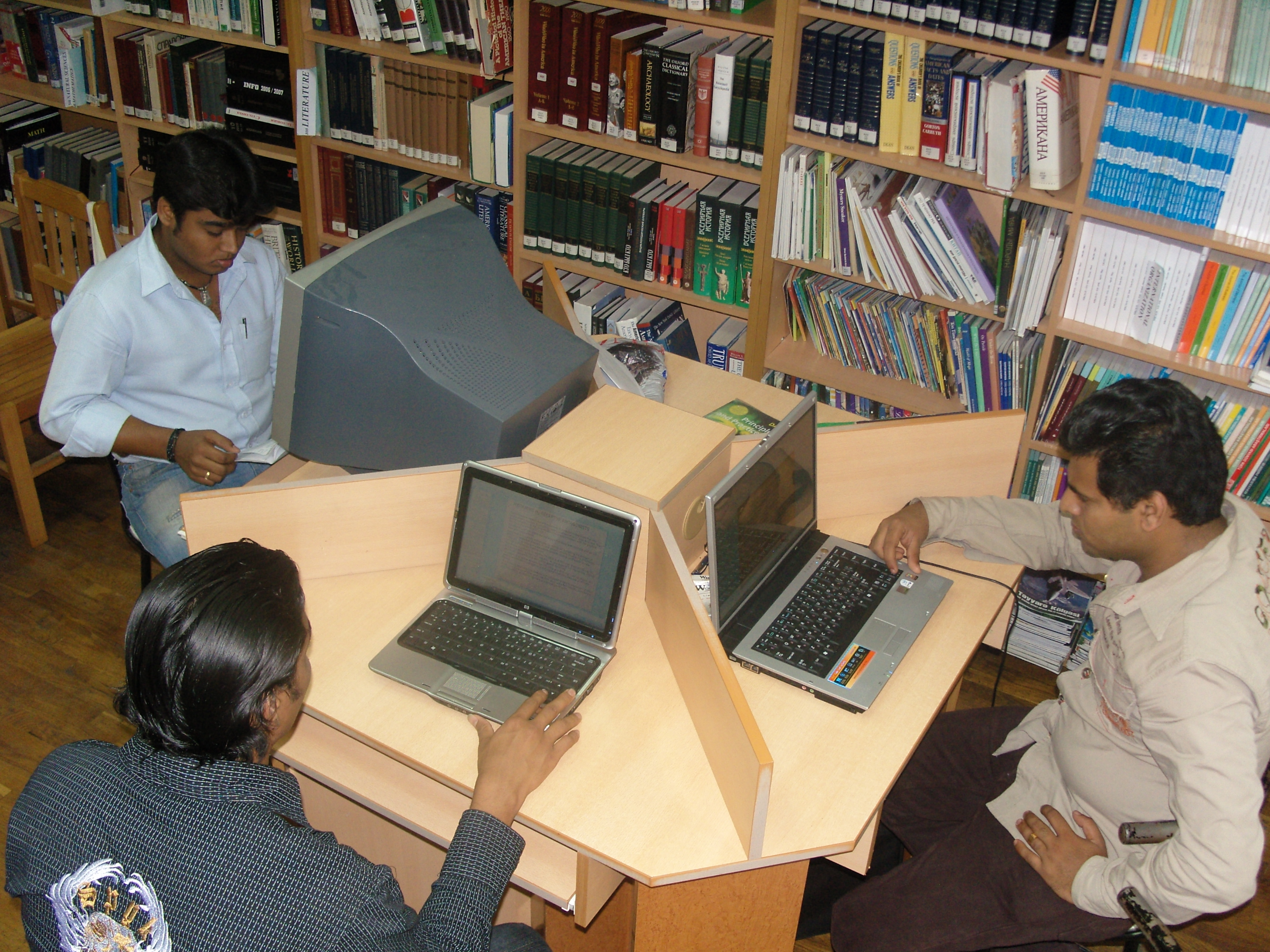 Reference Hall of the Khazar University Library Information Center